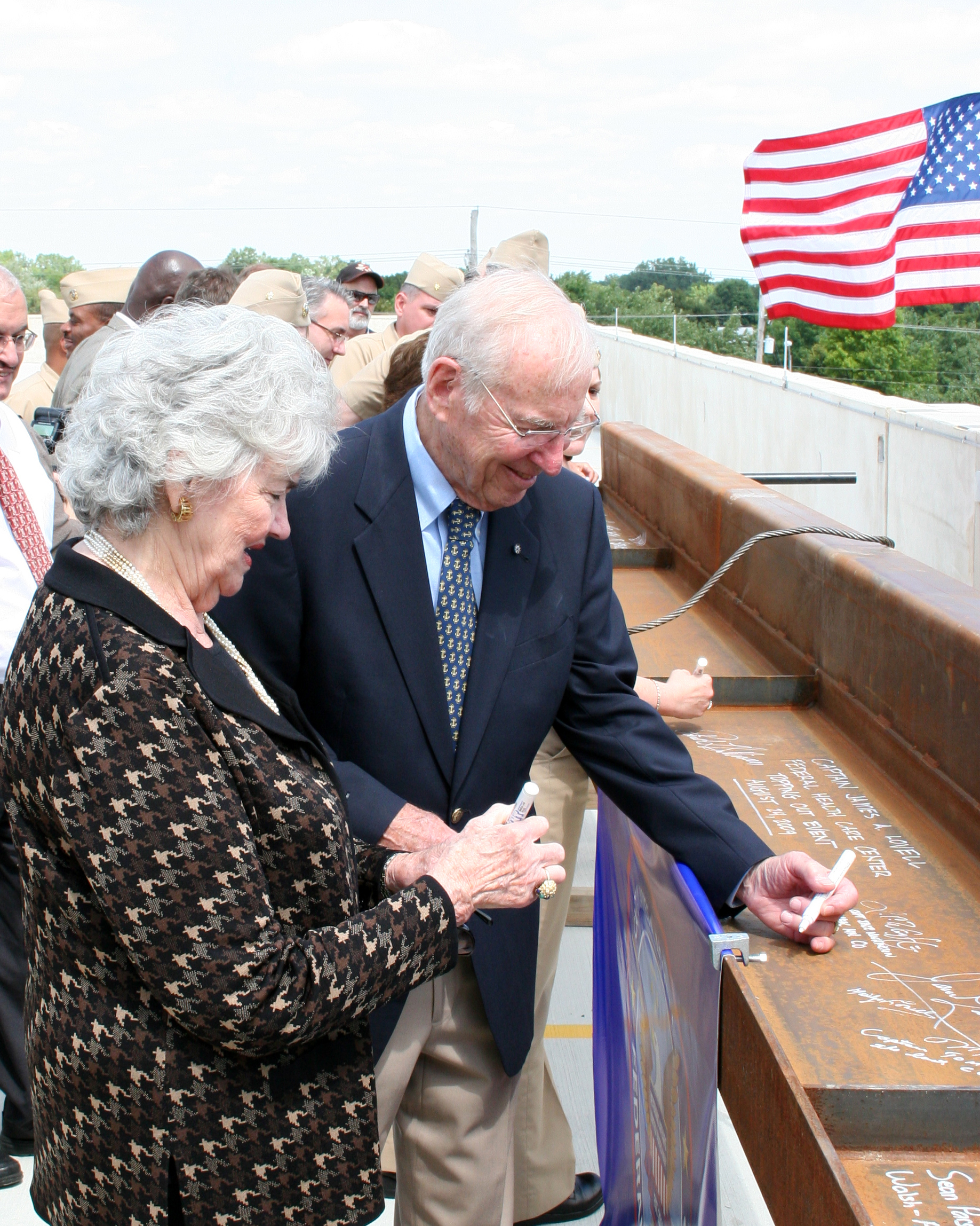 GREAT LAKES, Ill. (Aug. 24, 2009) Retired Navy captain and former astronaut Jim Lovell and his wife, Marilyn Gerlach, sign the final roofing beam to be lifted into place during the topping off ceremony for the Captain James A. Lovell Federal Health Care Center. The building will be the first completely integrated Department of Defense and Department of Veterans Affairs health care center. Located near Naval Station Great Lakes, Ill., the center is scheduled for completion in August 2010. (U.S. Navy photo by Bill Couch/Released)